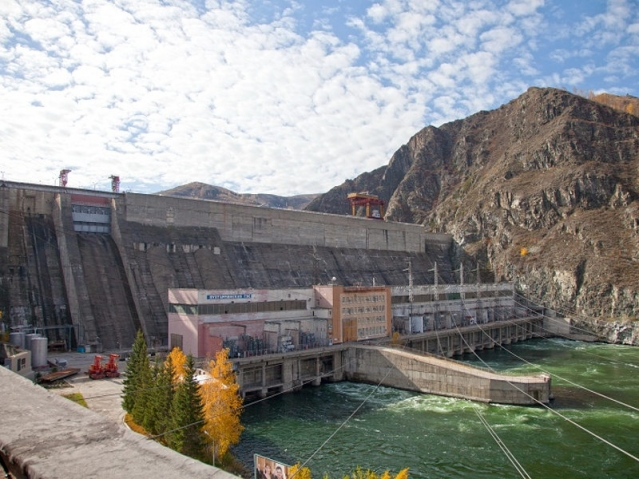 Bukhtarma hydroelectric power station